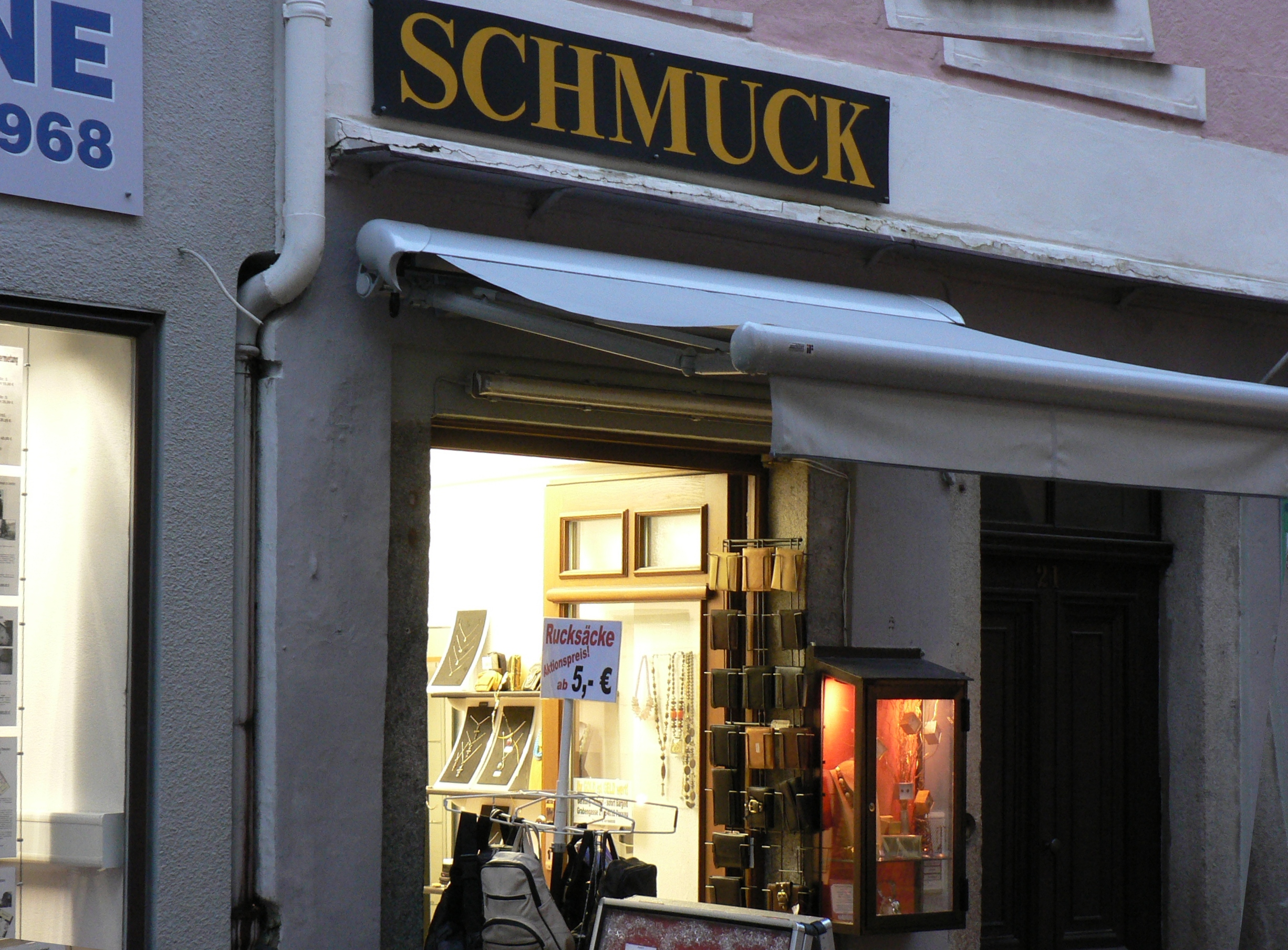 Shop front, Passau, Germany